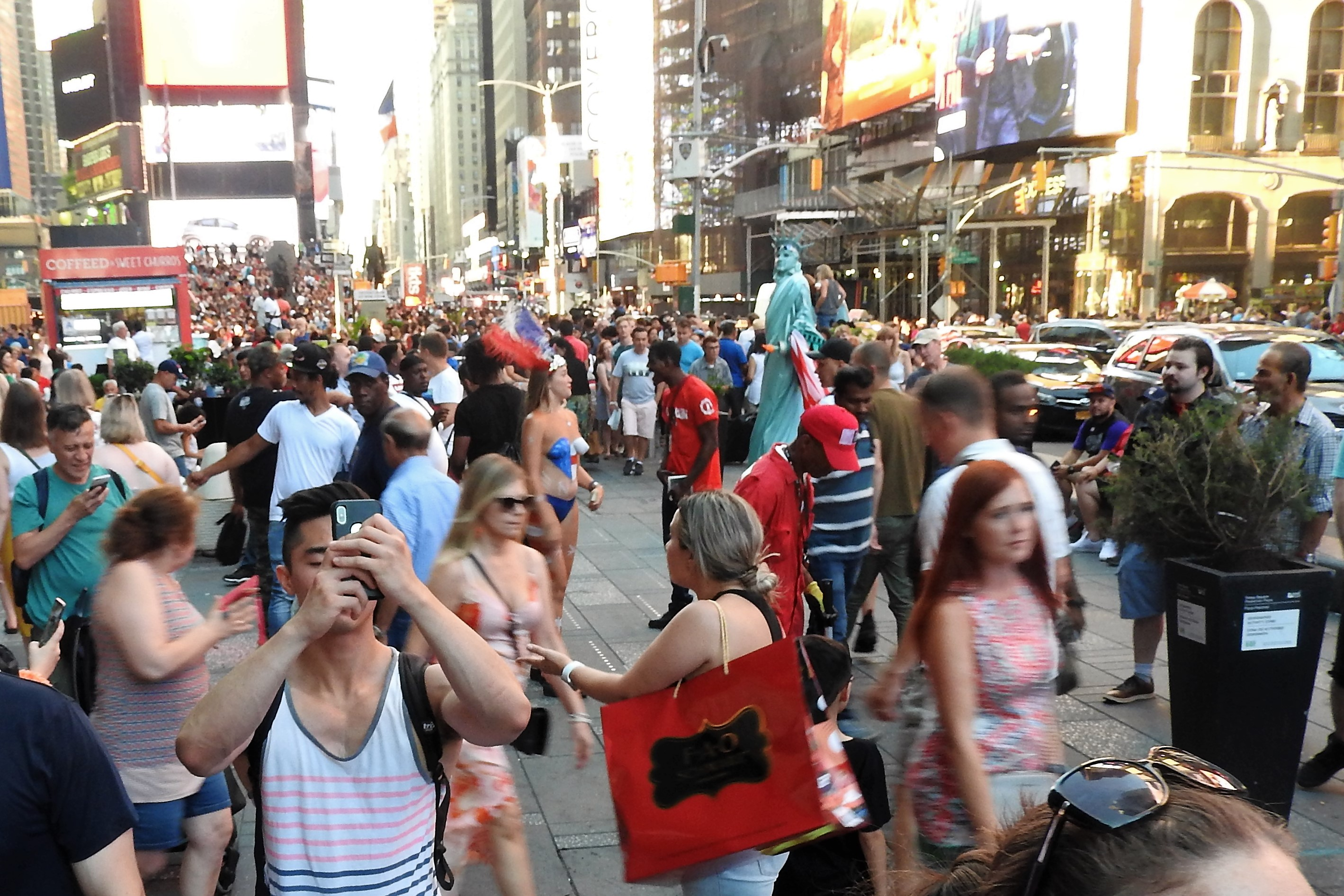 Looking northeast at crowd during July blackout, before Sundown